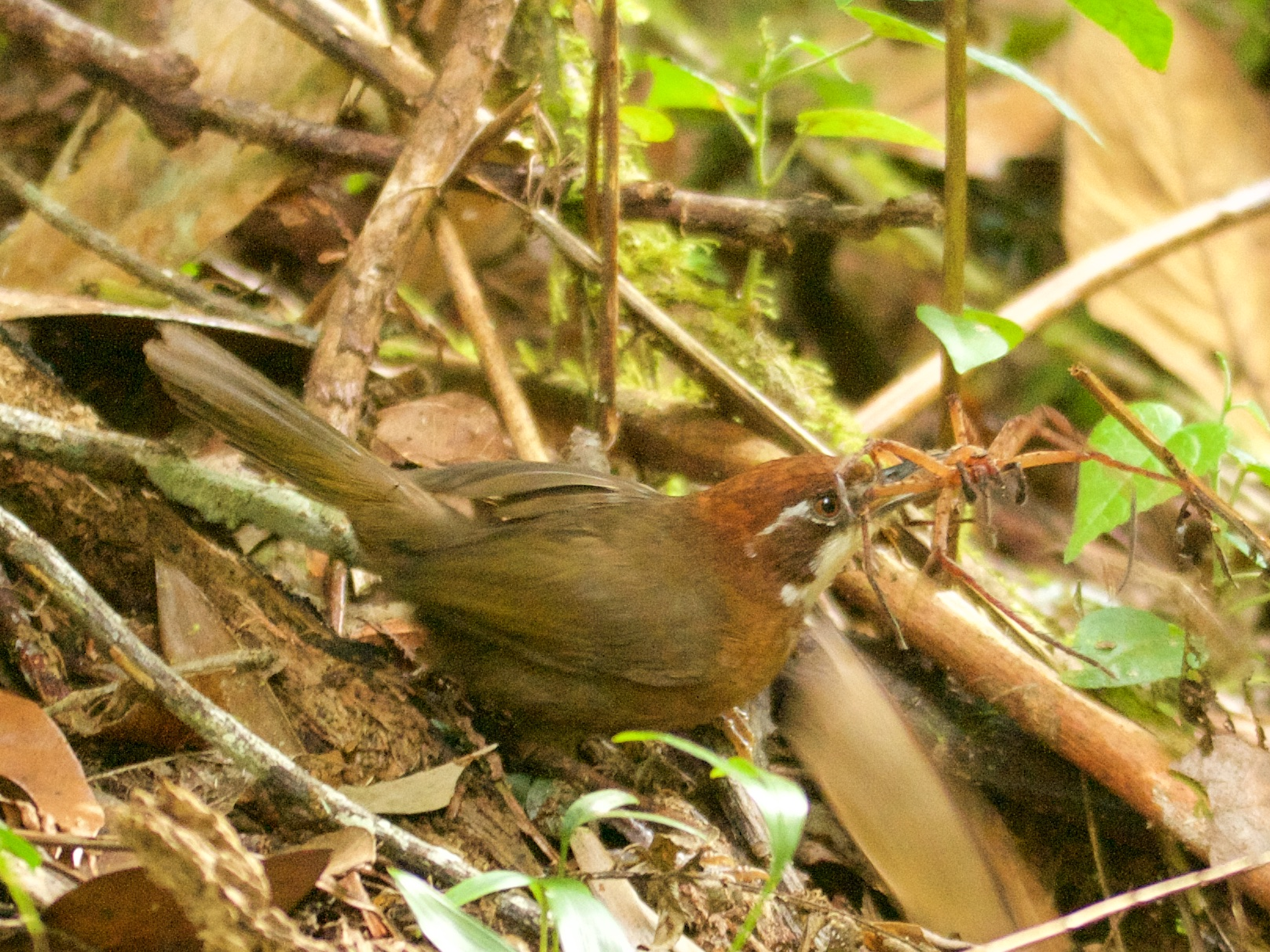 White-throated Oxylabes with dinner